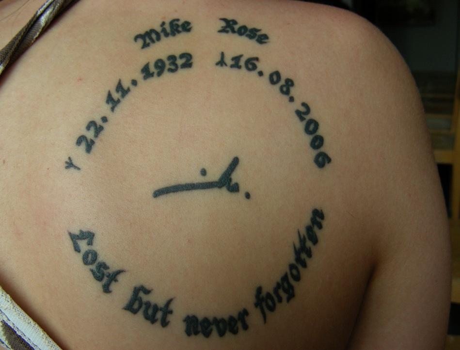 A tatoo to remember the artist Mike Rose.